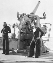 Photograph showing two RAN sailors, S3207 Able Seaman (AB) Percy A Tipper (left) and 23424 AB Cecil A Dobell (right), with HA (high-angle, i.e. anti-aircraft) QF 4-inch Mk V gun, on HMAS Canberra.